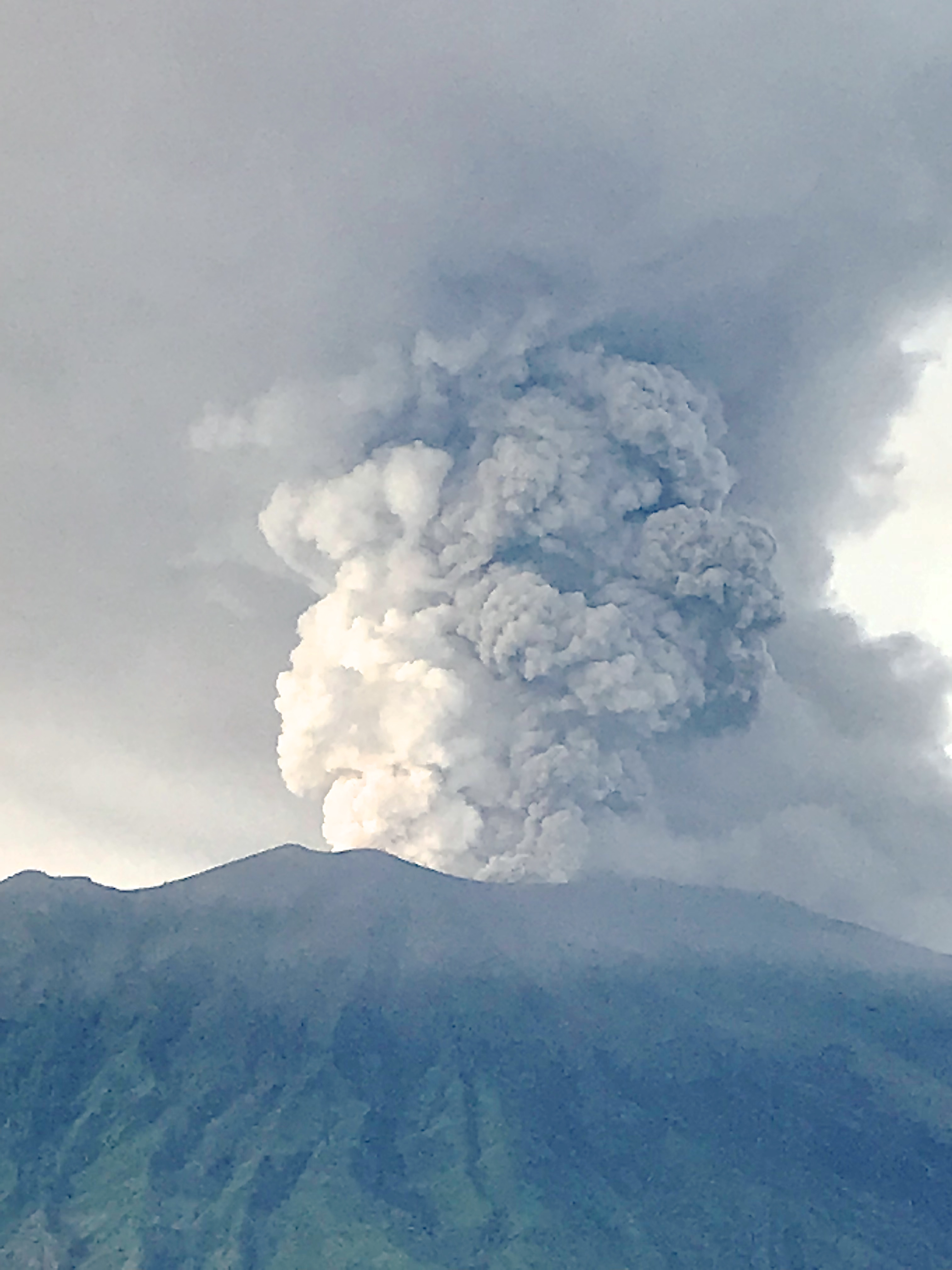 Mount Agung, November 2017 eruption - 27 Nov 2017